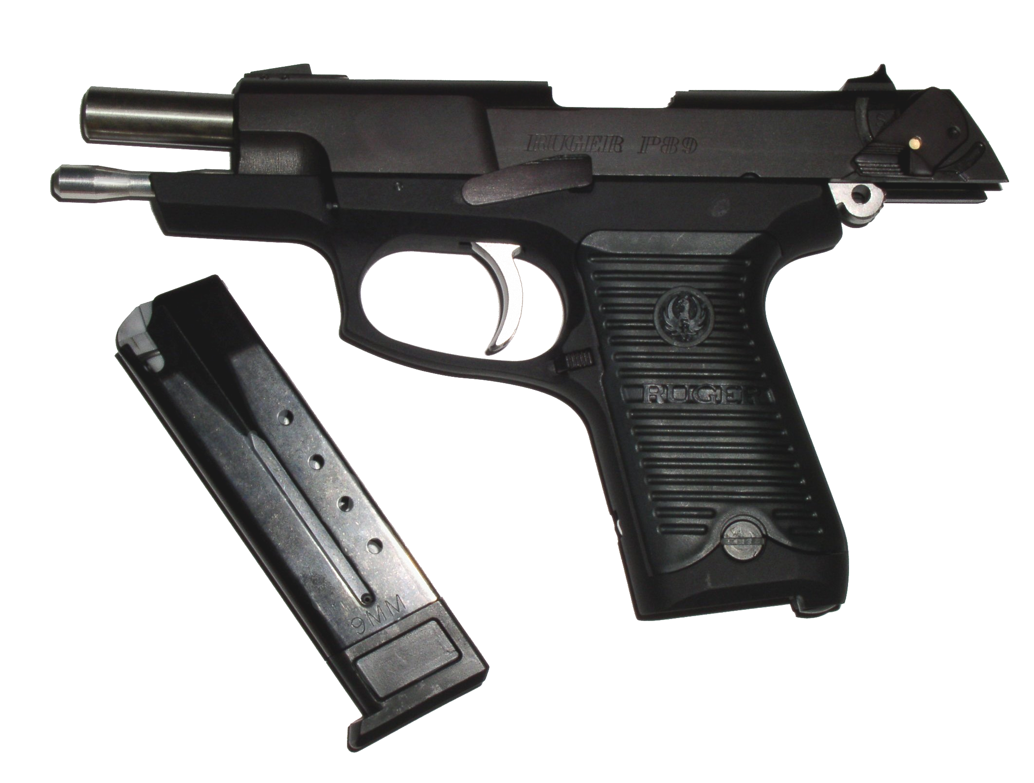 A standard Ruger P89 with slide locked back and magazine removed